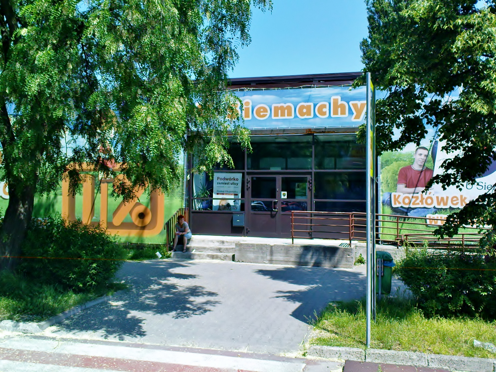 Kraków Kozłówek - Daily Centre of Sociotherapy for children "U Siemachy"